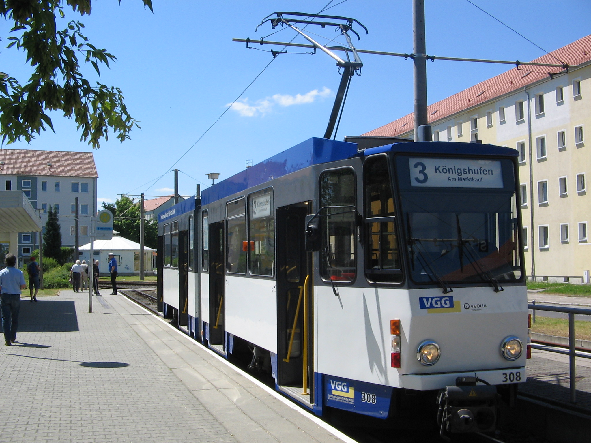 Streetcar No. 308 at terminal Weinhübel.